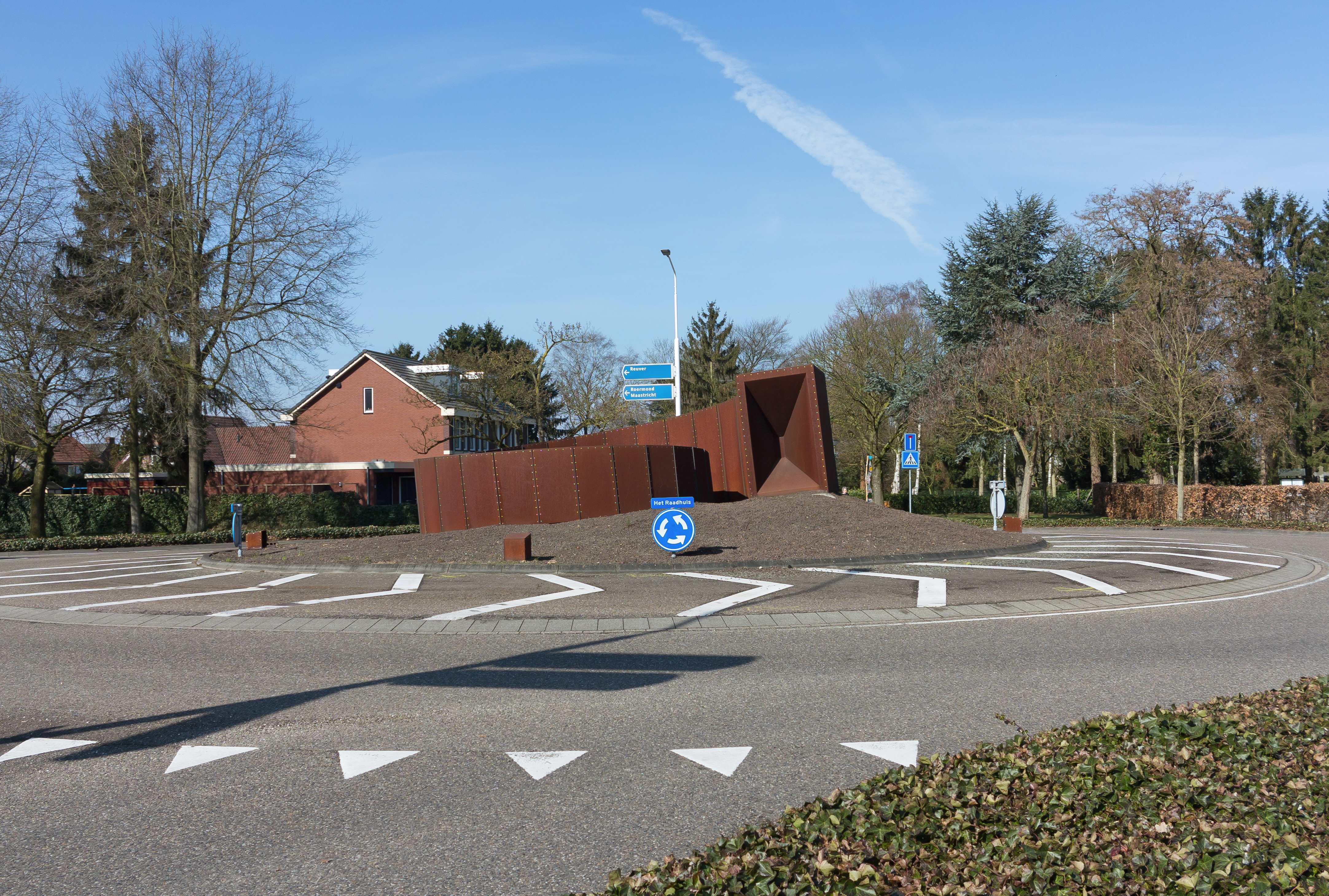 Belfeld, art work at a roundabout